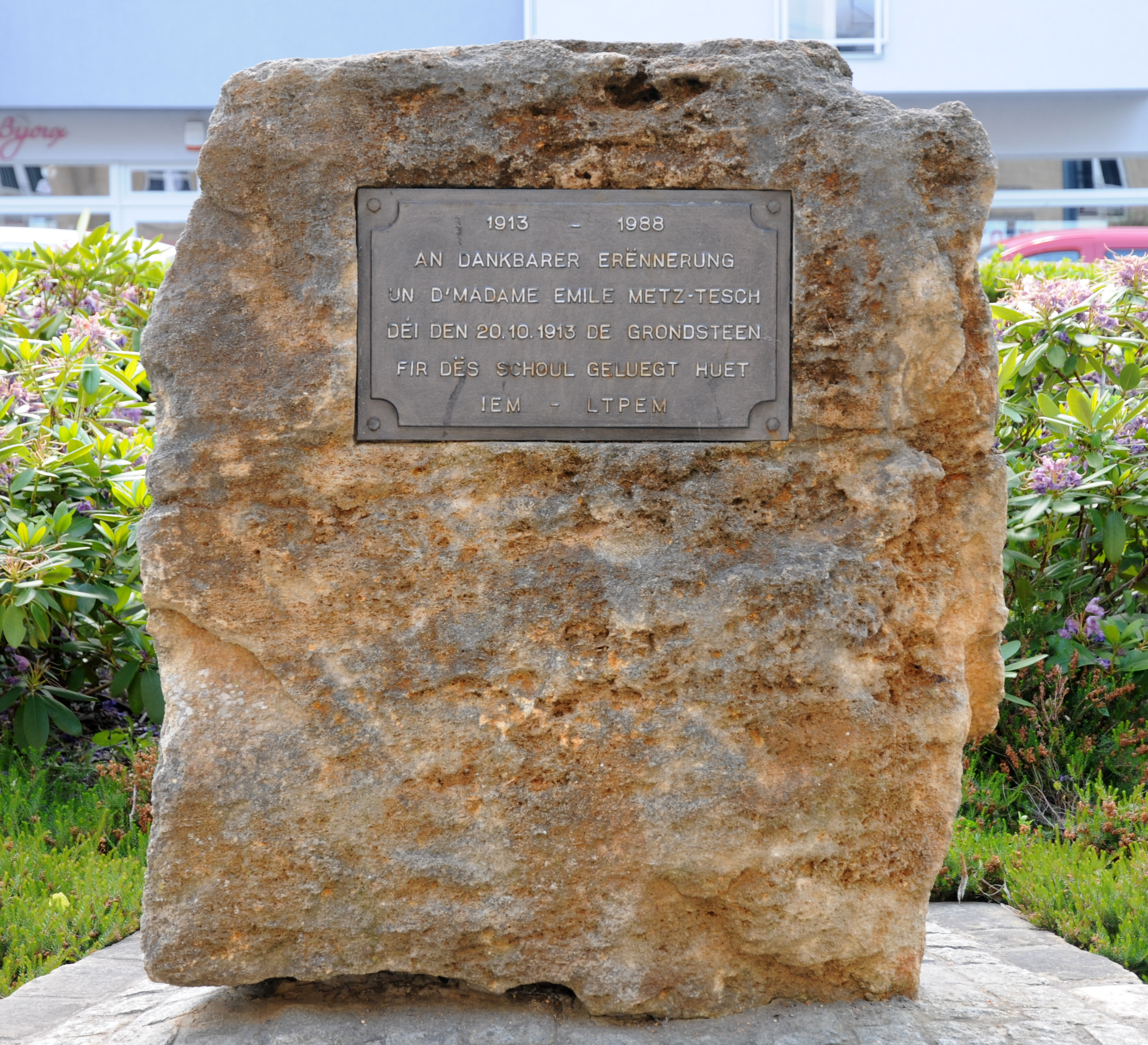 Remembering Mrs Edmée Metz-Tesch, (1843-1919)